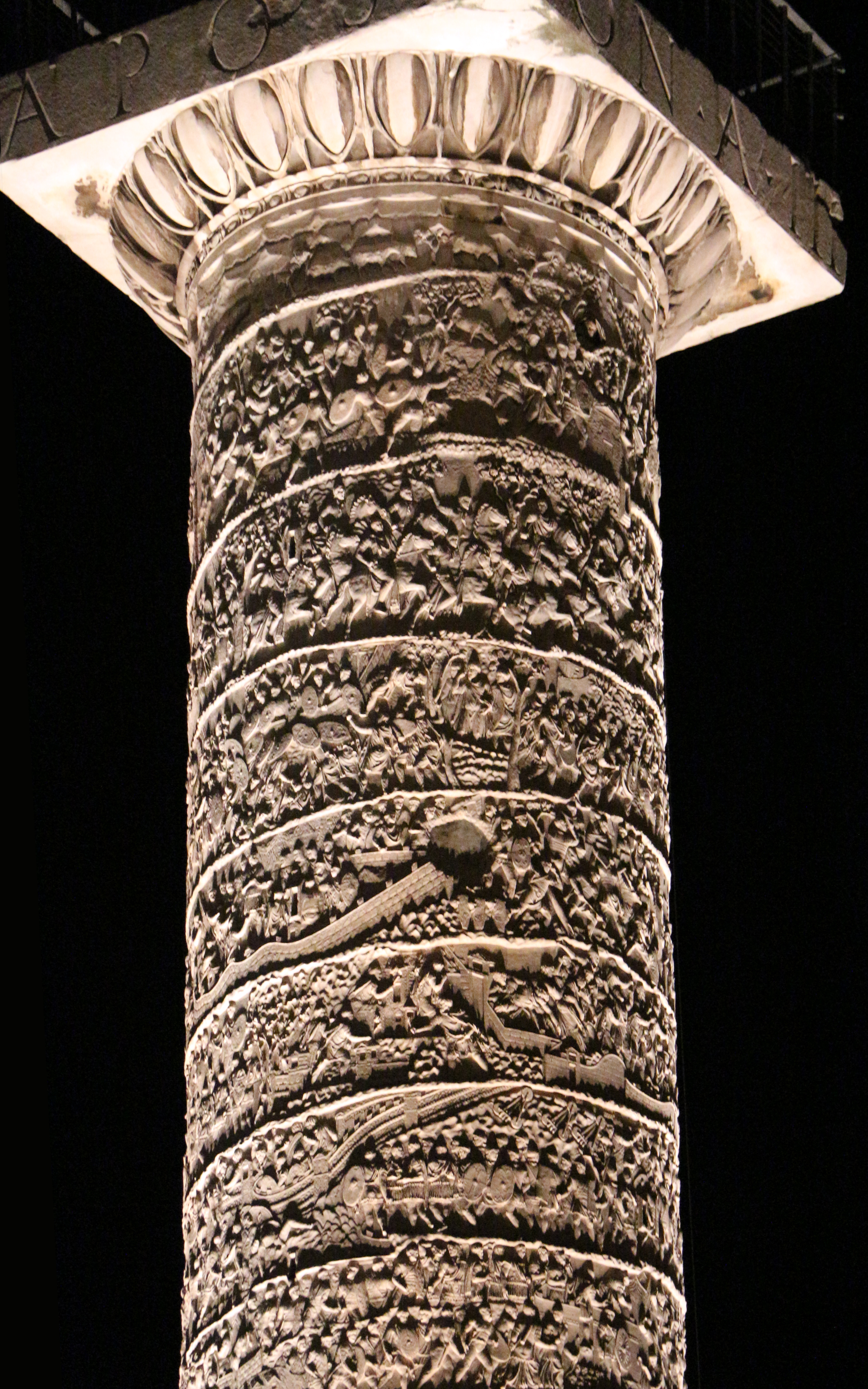 Trajan's Column - Reliefs